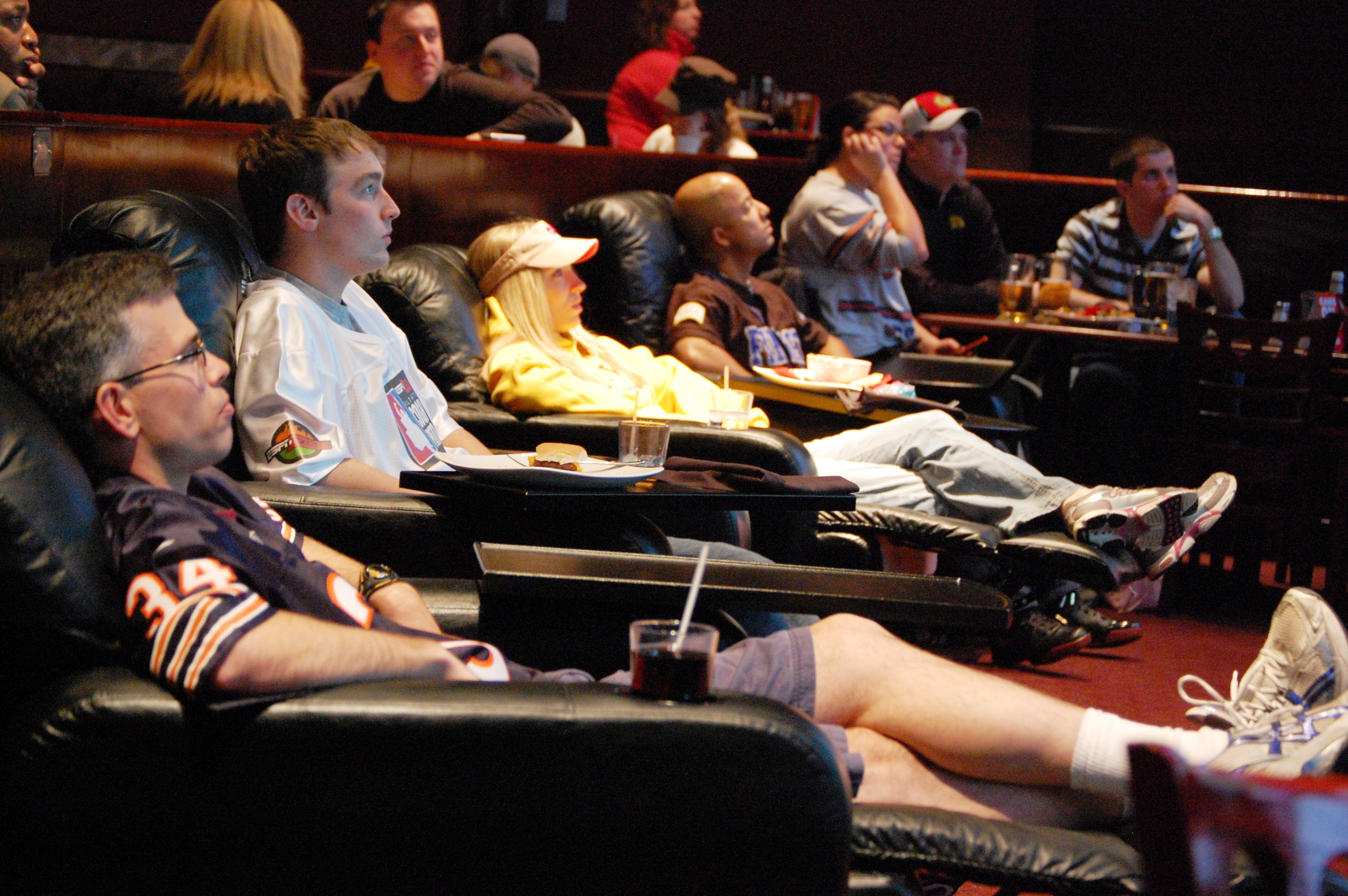 2009 ESPN Zone Chicago Ultimate Couch Potato Contestant - Steve Janowski